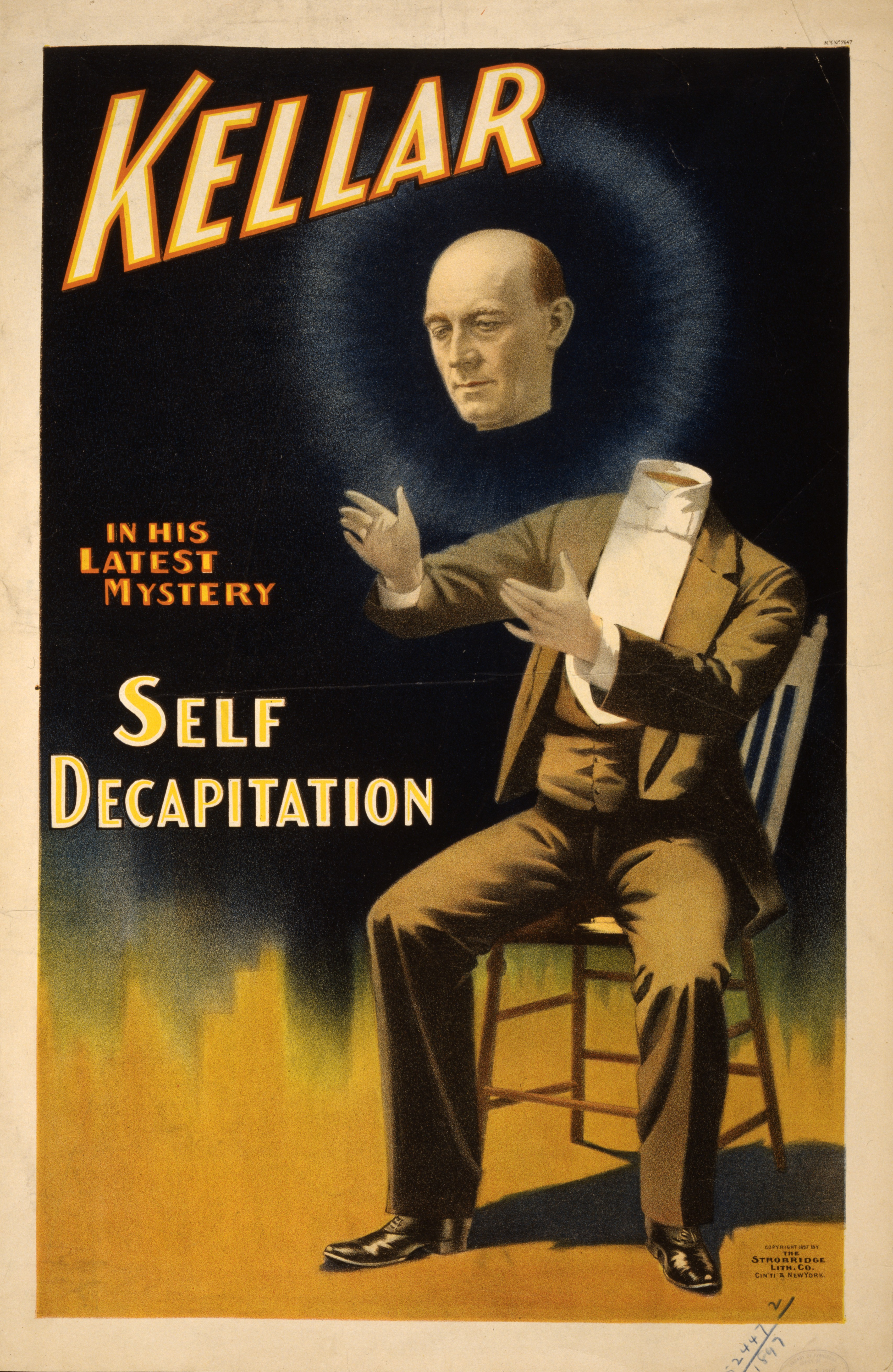 An advertising poster depicting Harry Kellar performing self decapitation.